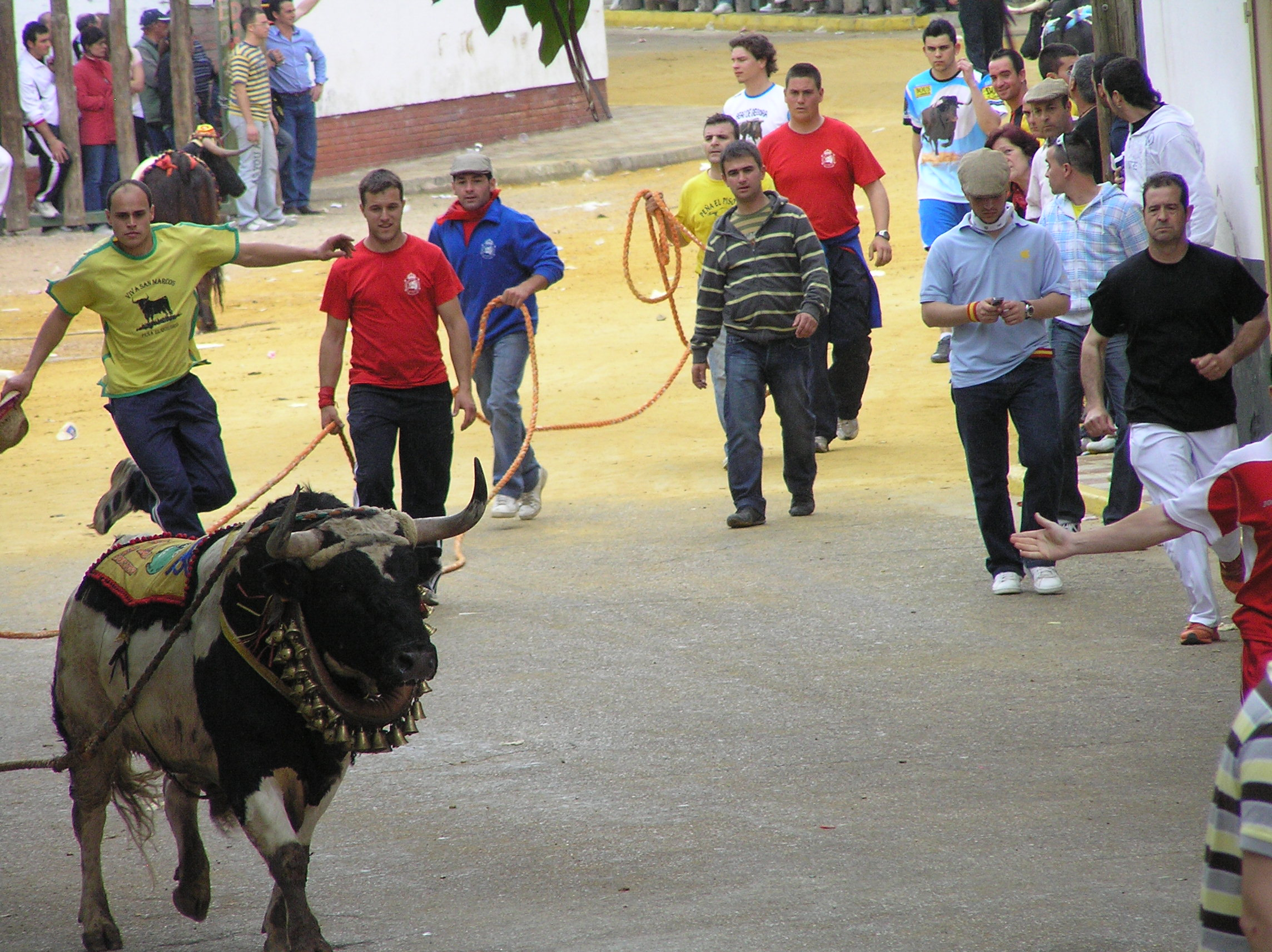 Toro ensogado y engalanado el 25 de abril